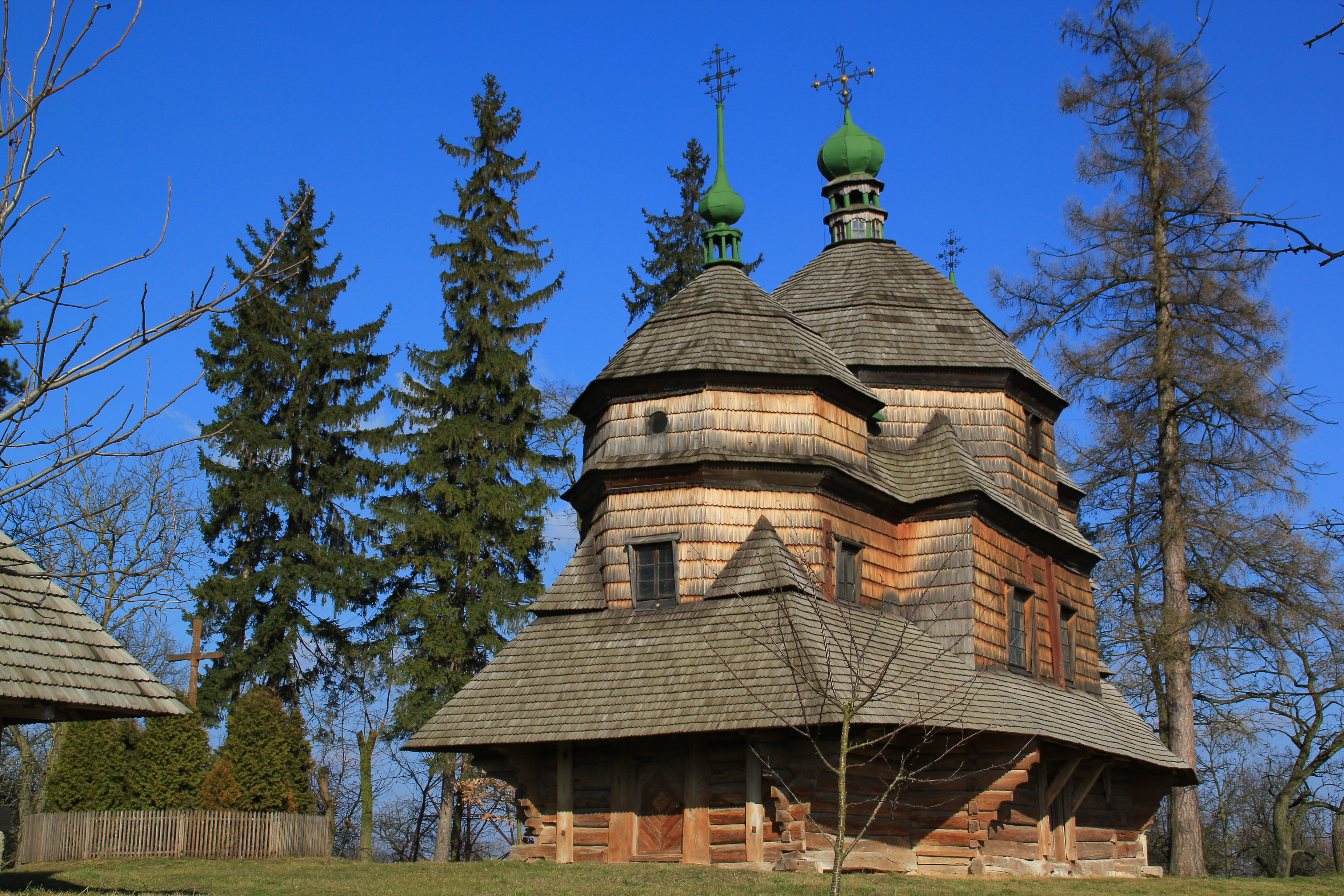 St. Michael church (1754), town Komarno, Lviv Oblast